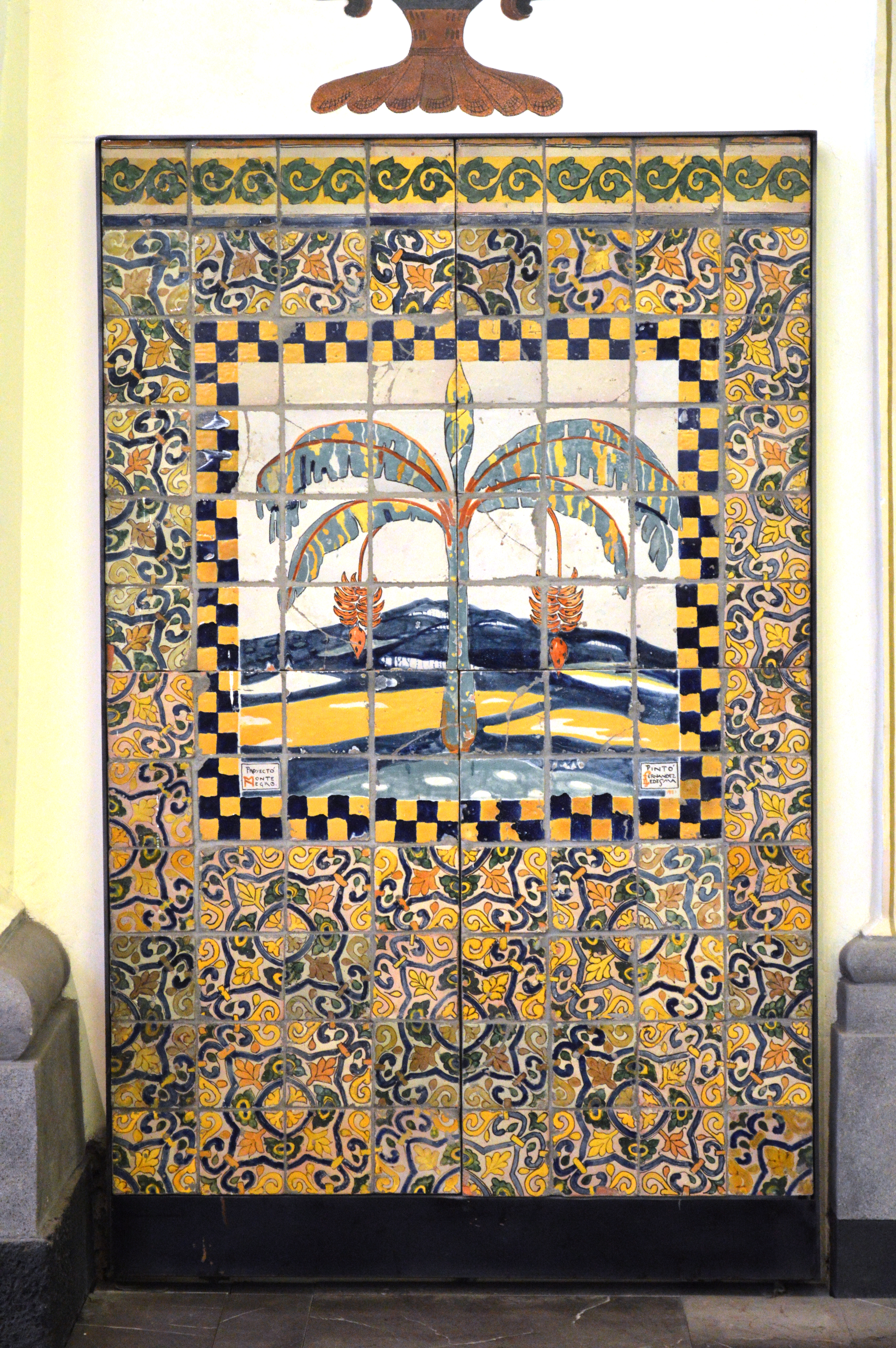 Tile work by Roberto Montenegro and Fernandez Ledesma at the San Pedro y San Pablo College church in the historic center of Mexico City